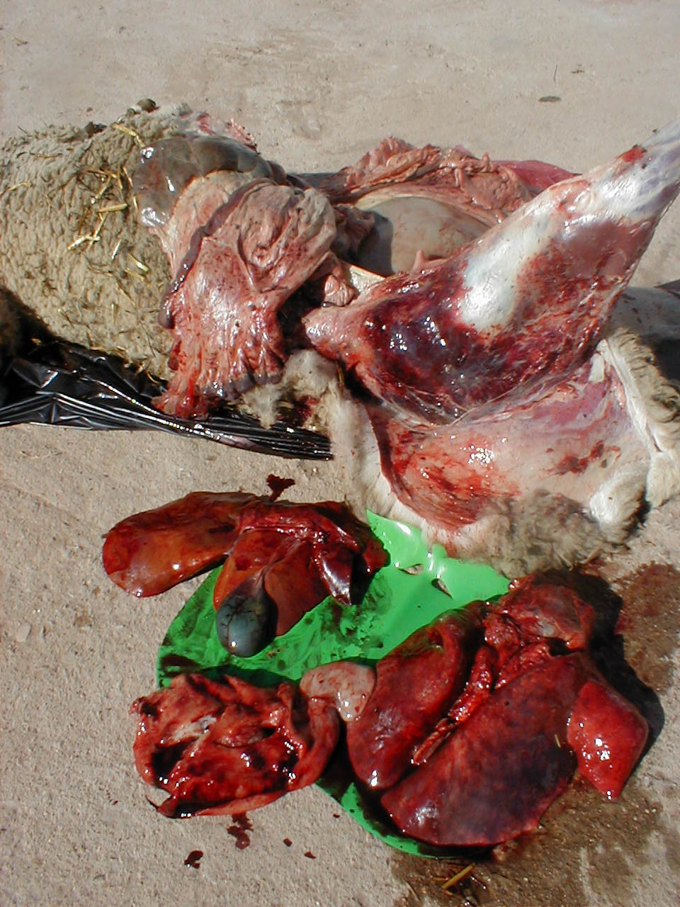 Lesions of acute haemolytic peumonia in a ewe (probably due to Pasteurella haemolytica Walon: Dispouyes d' ene berbis k' a crevé d' ene sorawiyante peumoneye (portrait saetchî pa L. Mahin).